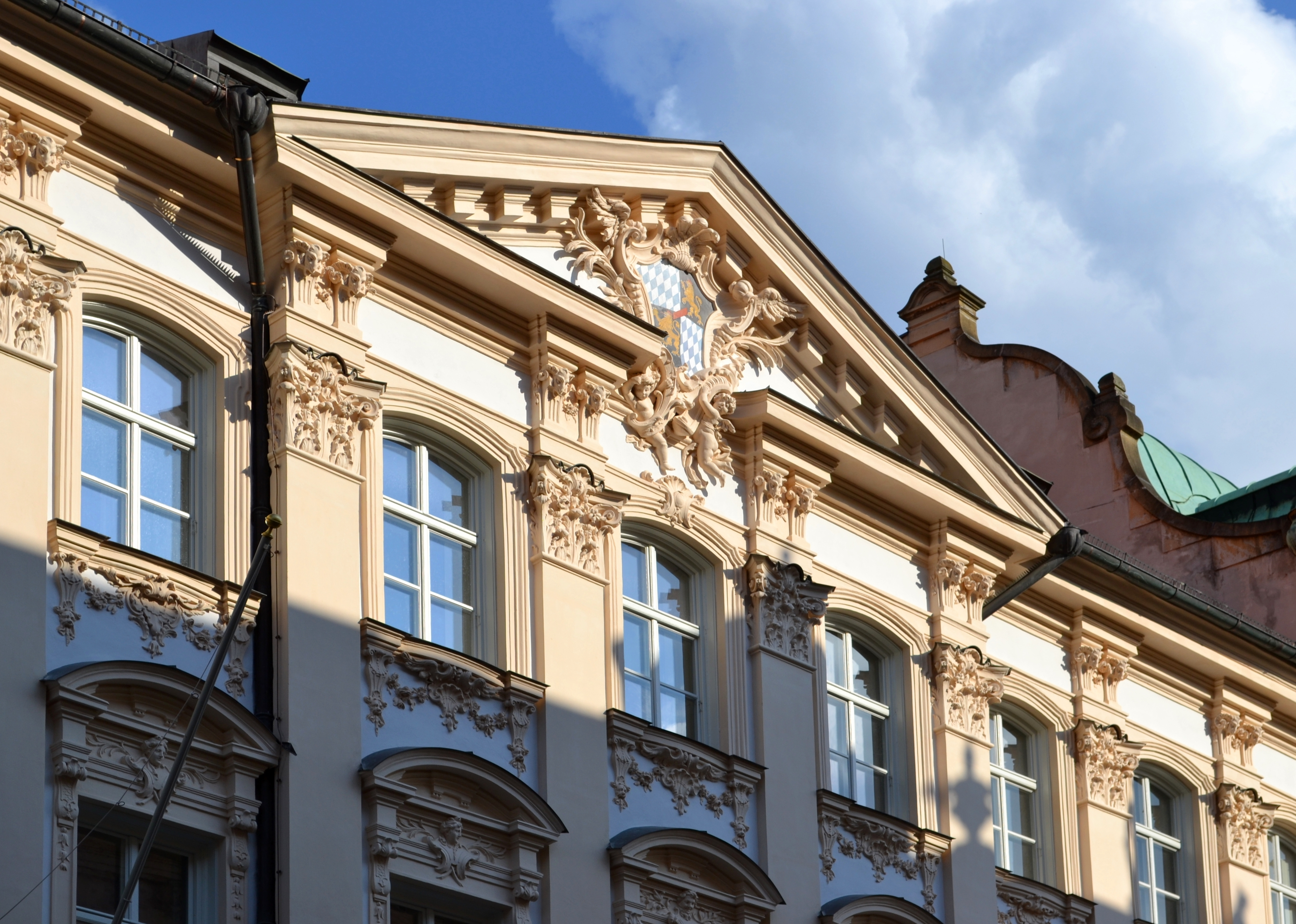 Baroque façade in Kardinal-Faulhaber-Straße 7, Munich, Germany.